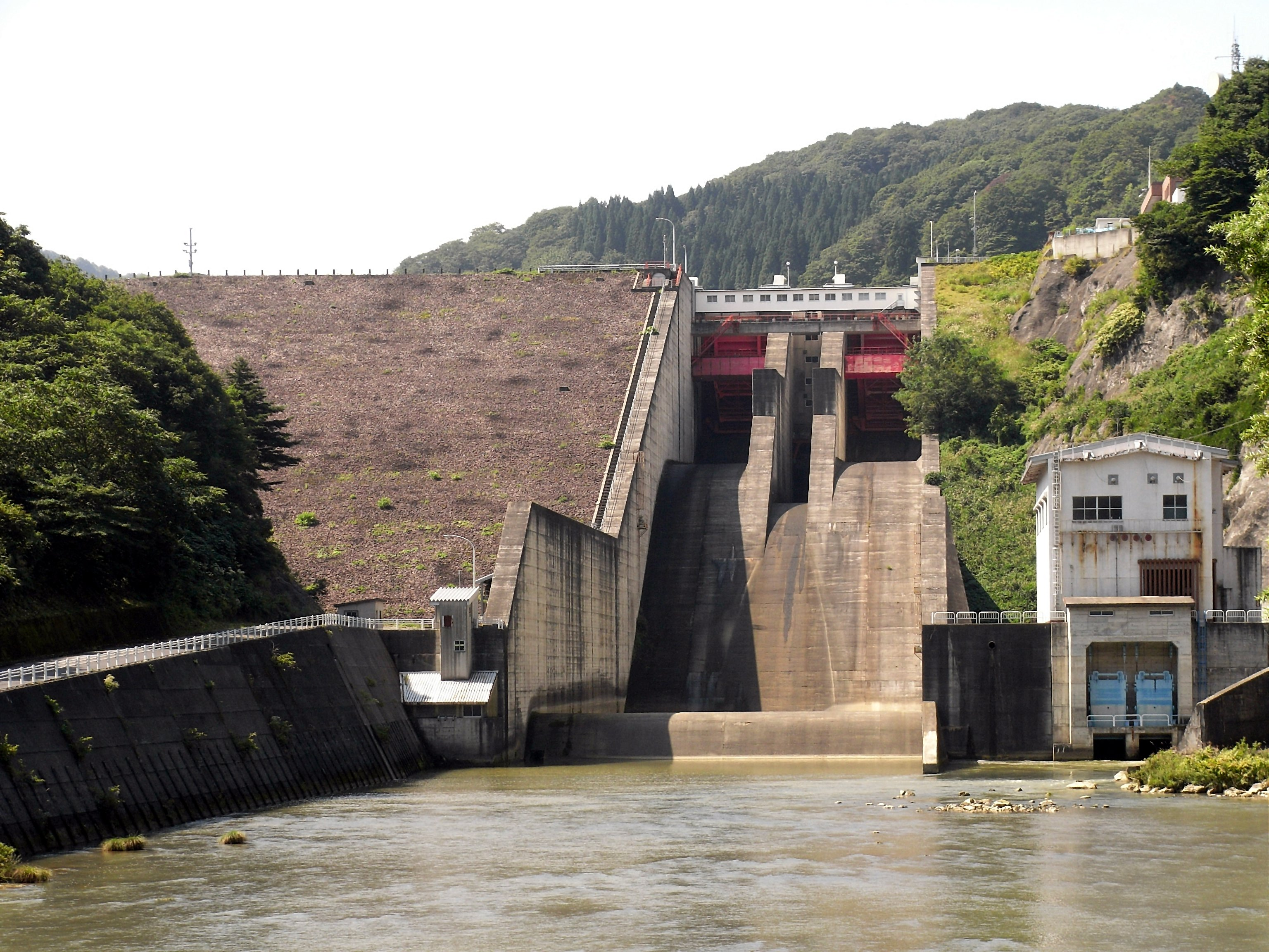 Shirakawa Dam(Okitama-shirakawa/Yamagata Pref./Japan)